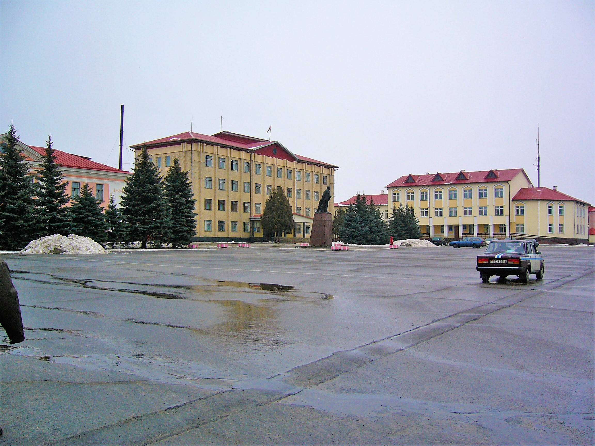 Administration building for the Pietrykaŭ Raion in Pietrykaŭ, Belarus